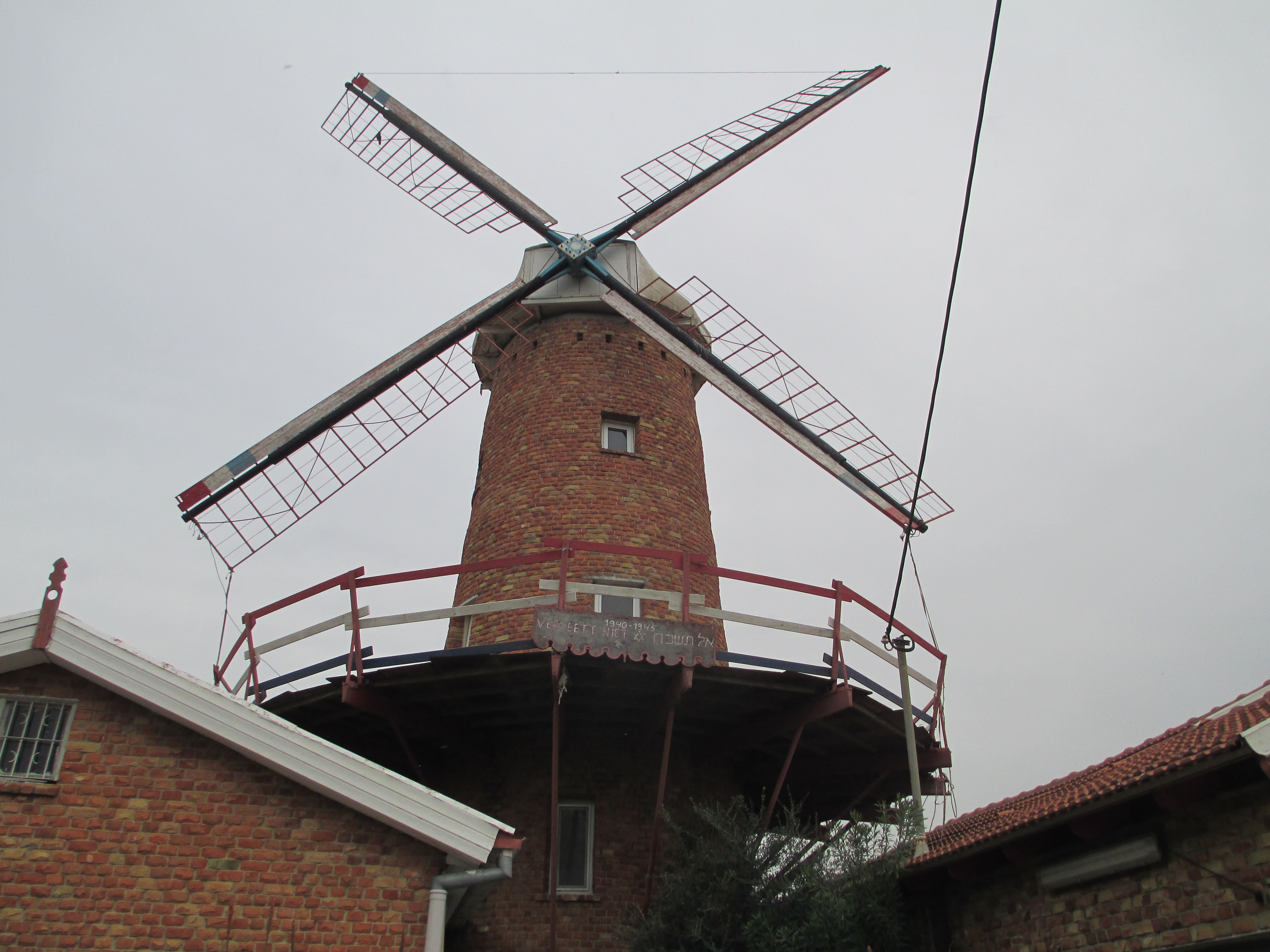 Windmill in Mishmar Hashiv'a